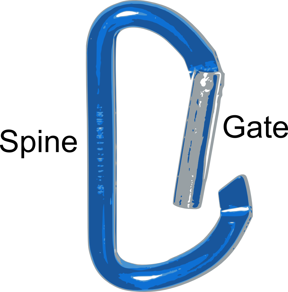 Depicts parts of carabiner.